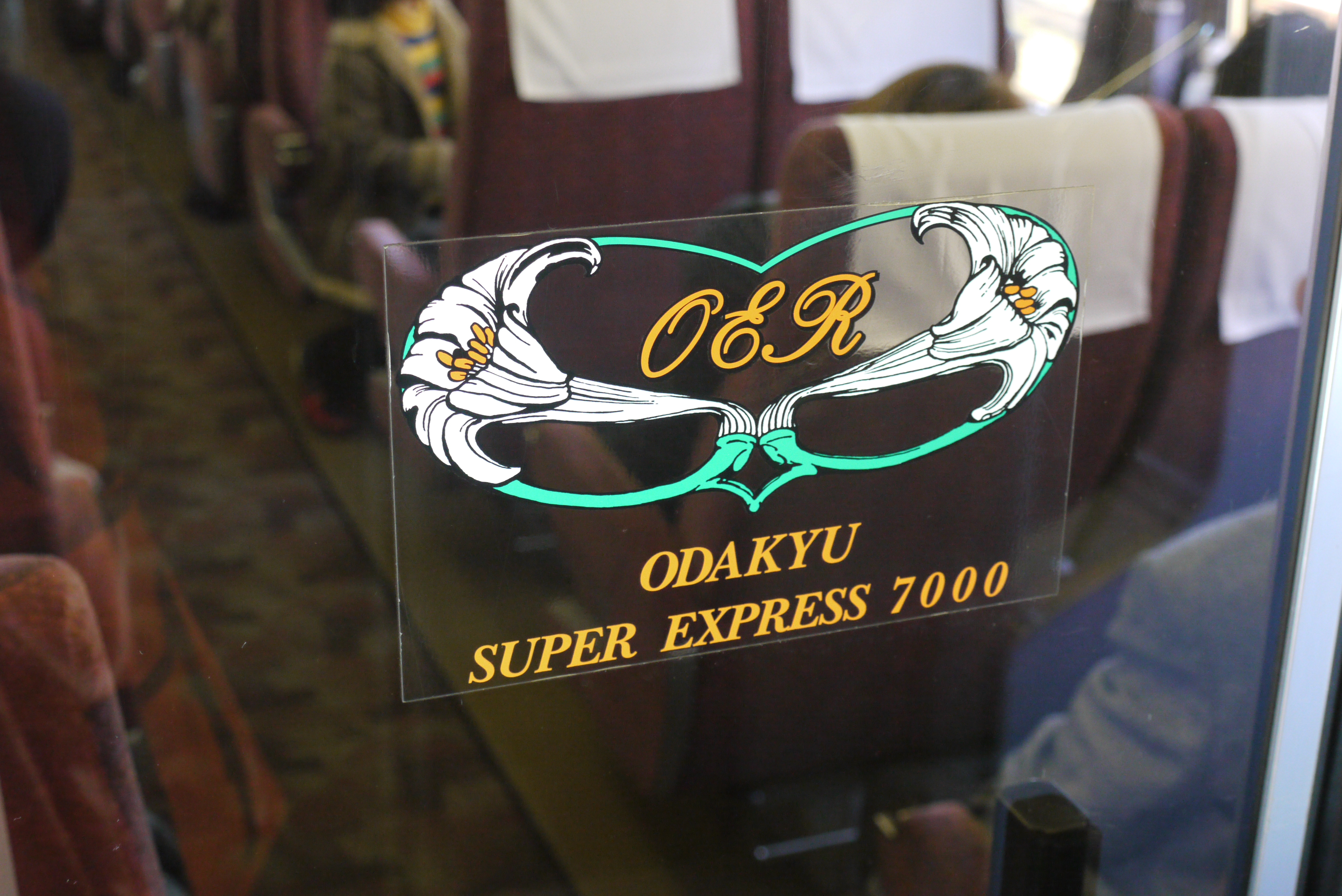 Odakyu LSE Emblem on doors between carriages